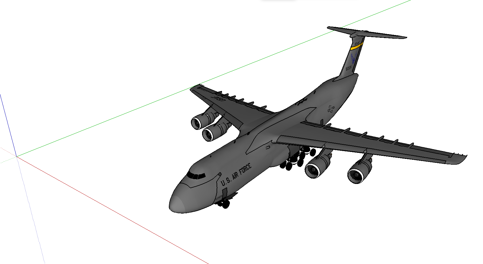 C-5 Galaxy SketchUp model